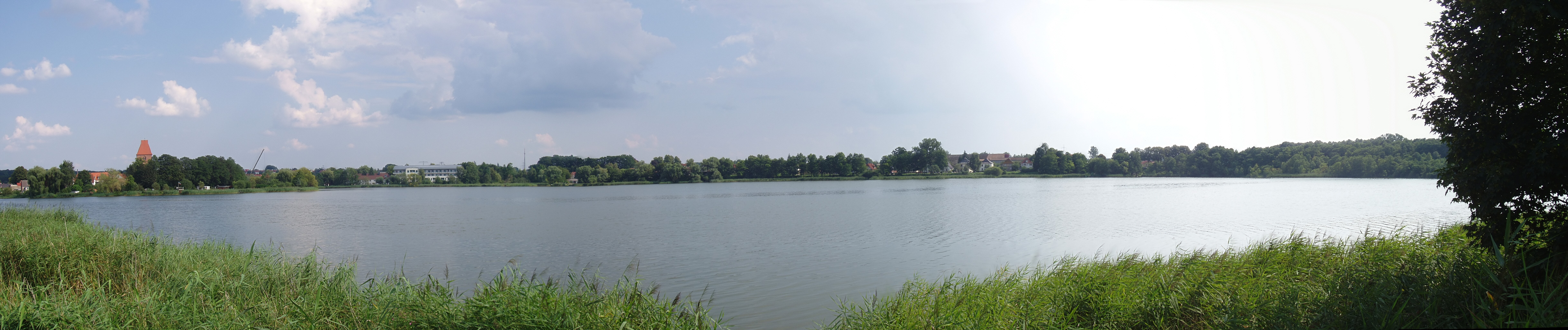 Lake "Crivitzer See", Crivitz, Germany; Panorama, view from west side